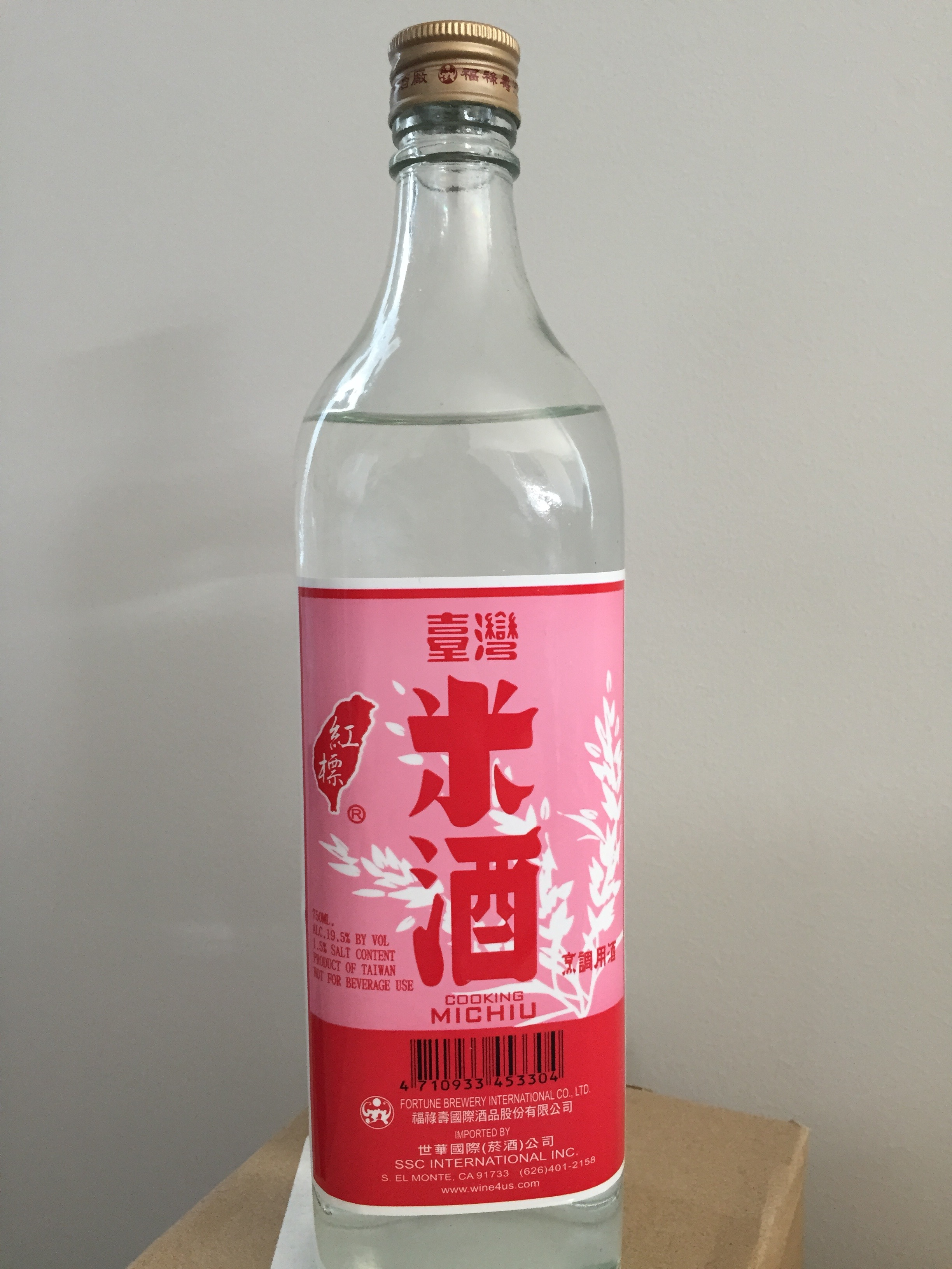 Taiwan Michiu